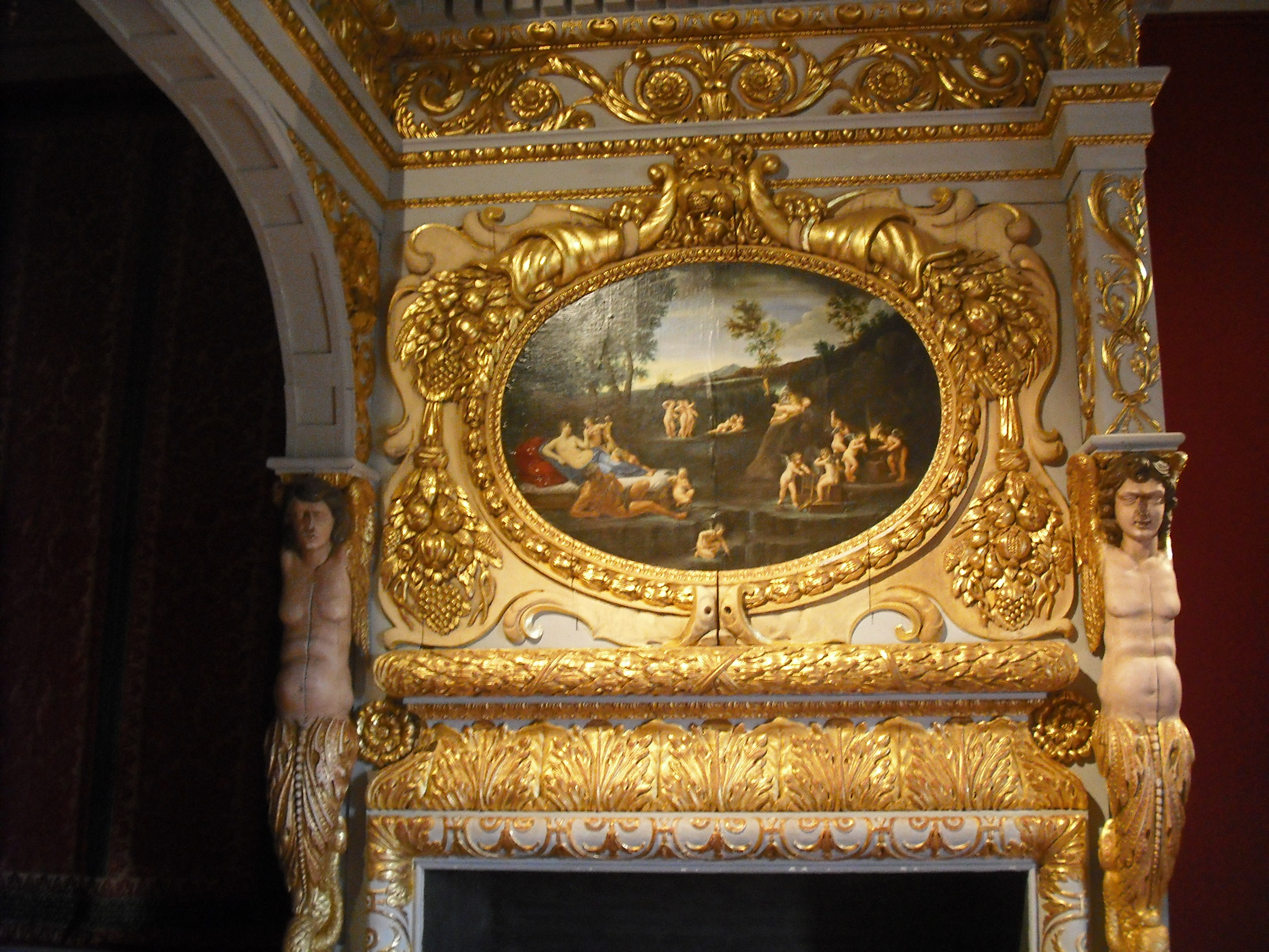 Ornementations on the fire place in the Chambre Dorée (Golden Bedroom) in the castle of Chateaubriant, from the 17th century but often (and wrongly) attributed to Françoise de Foix, one of the King François the Ist mistress.